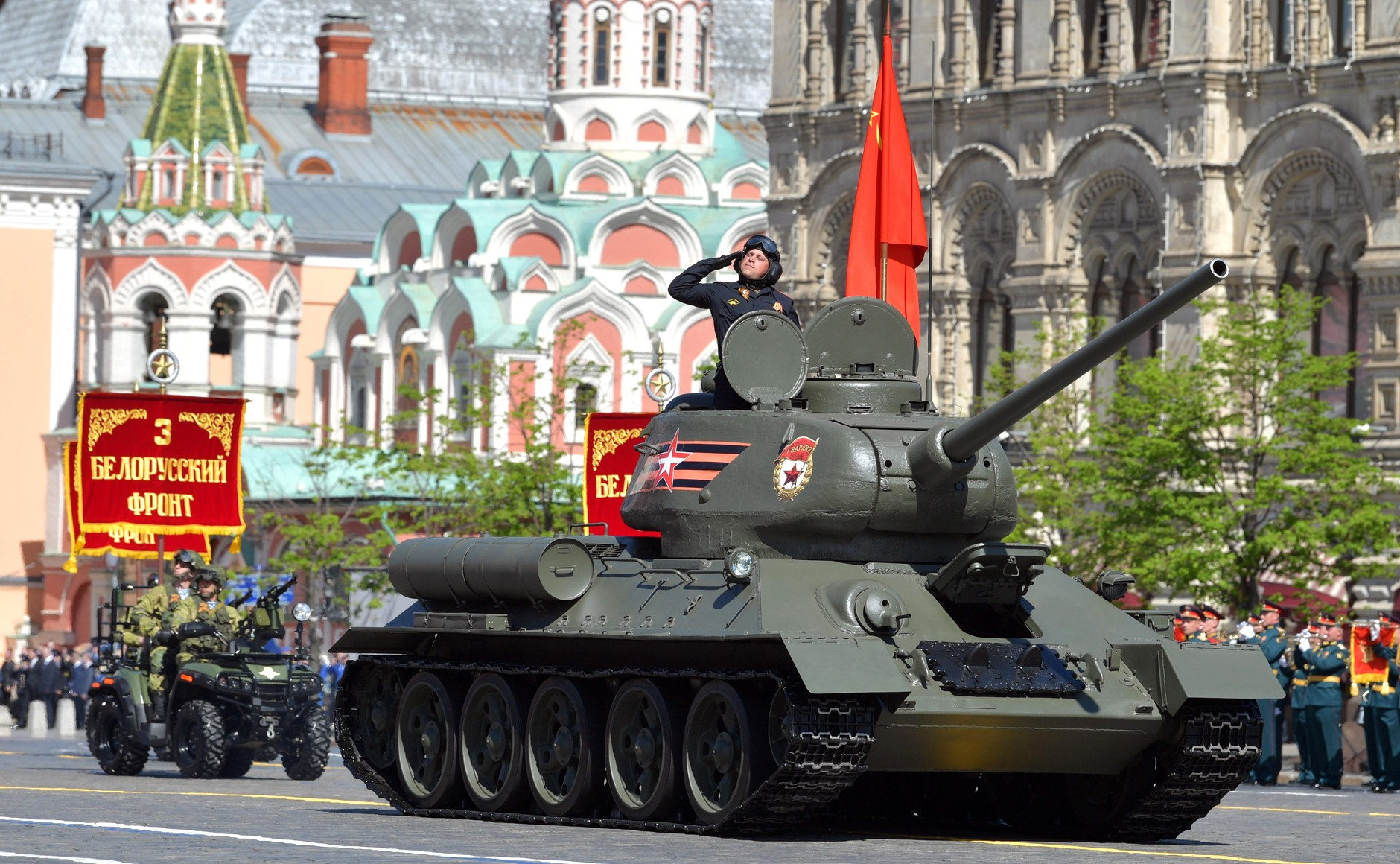 T-34-85 medium tank. 2018 Moscow Victory Day Parade